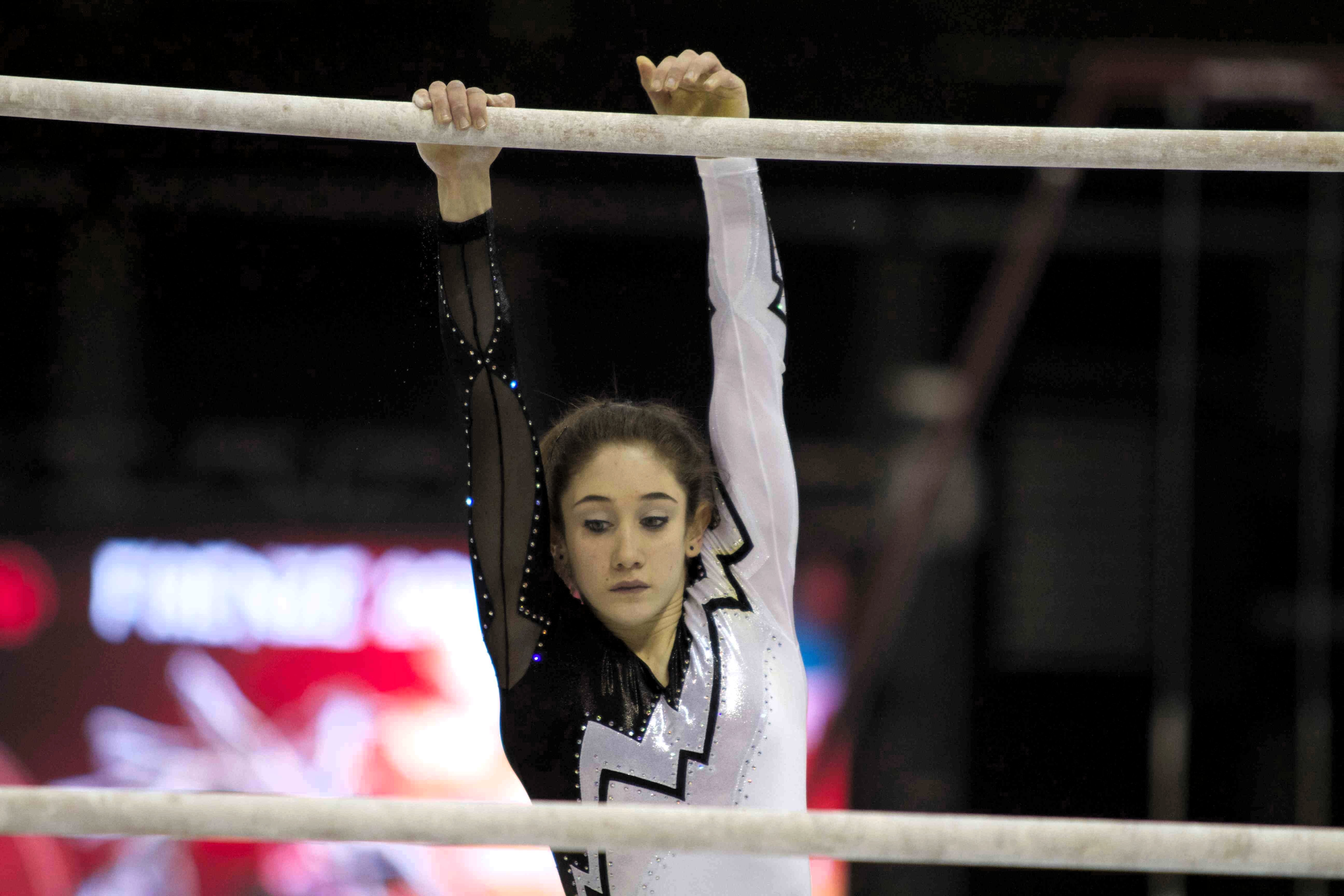 Alessia Leolini. Florence, 6th april 2013